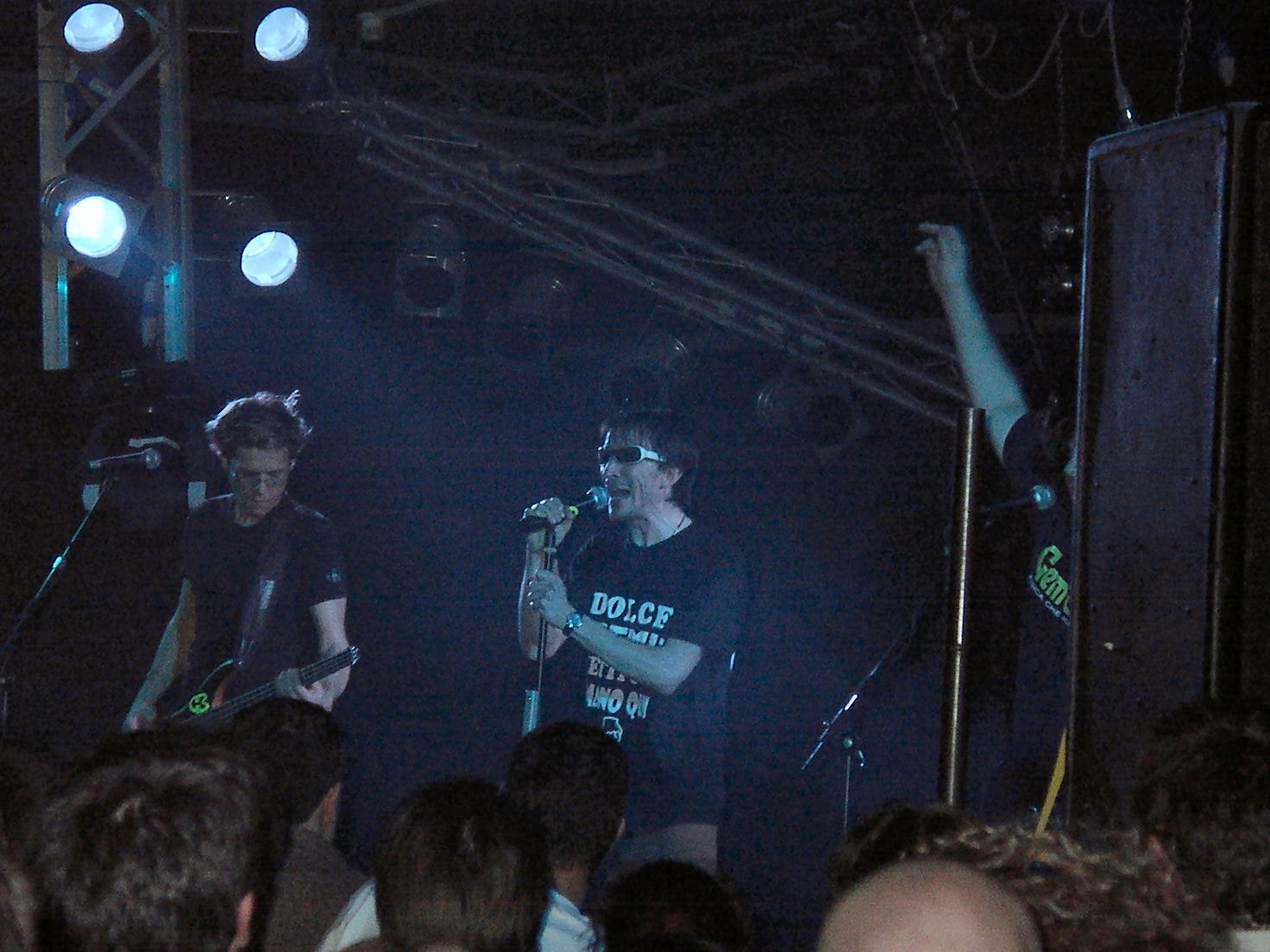 GemBoy live at Trezzo